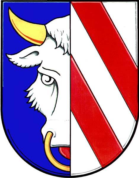 Municipal coat of arms of Rymice village, Kroměříž District, Czech Republic.